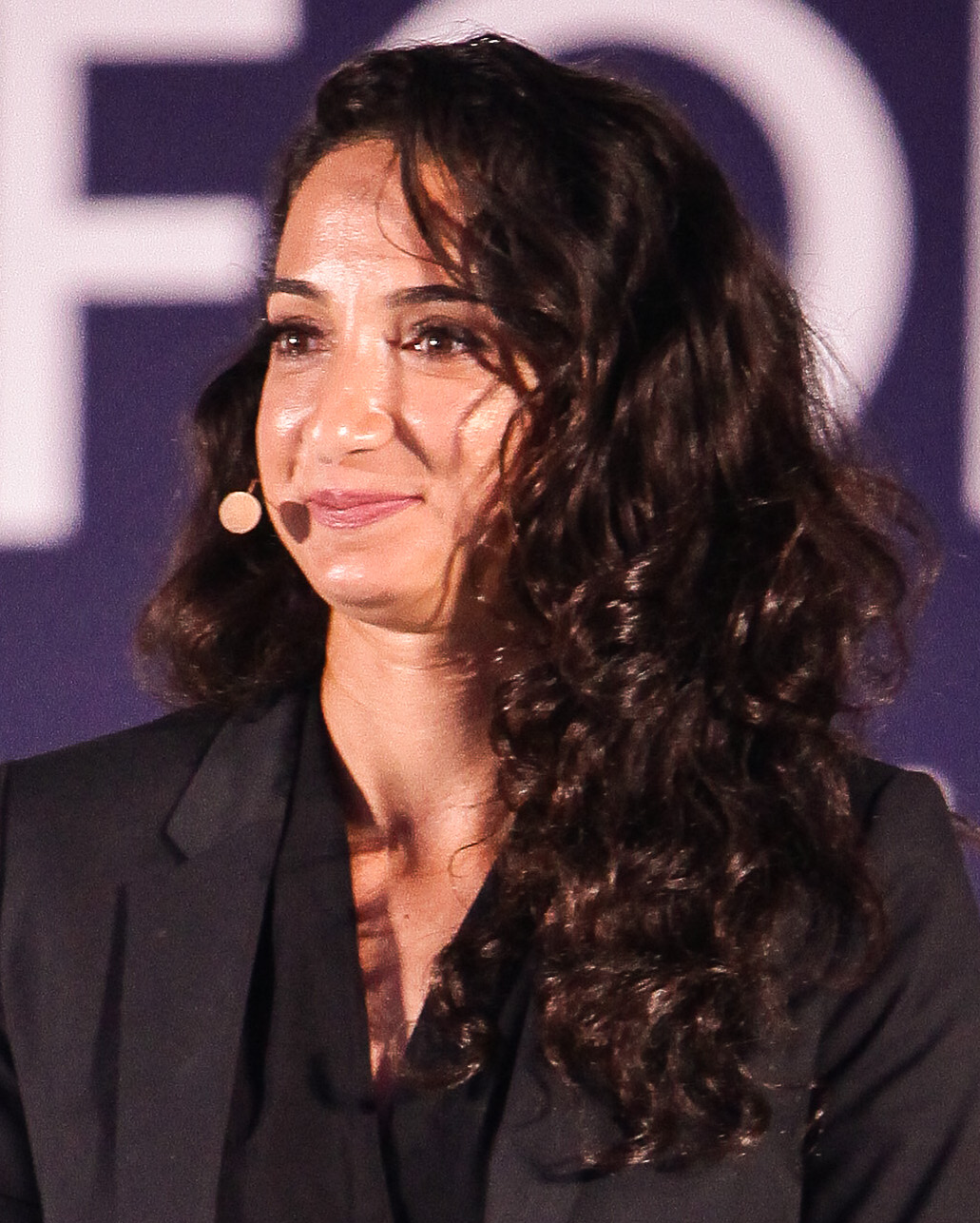 Raha Moharrak, Mountaineer & First Saudi Woman to Climb Seven Summits